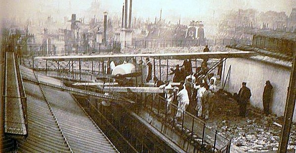 Jules Védrines fr[1=Jules Védrines ayant posé son Caudron G III, sur le toit des Galeries Lafayette du boulevard Haussmann, le 19 janvier 1919.